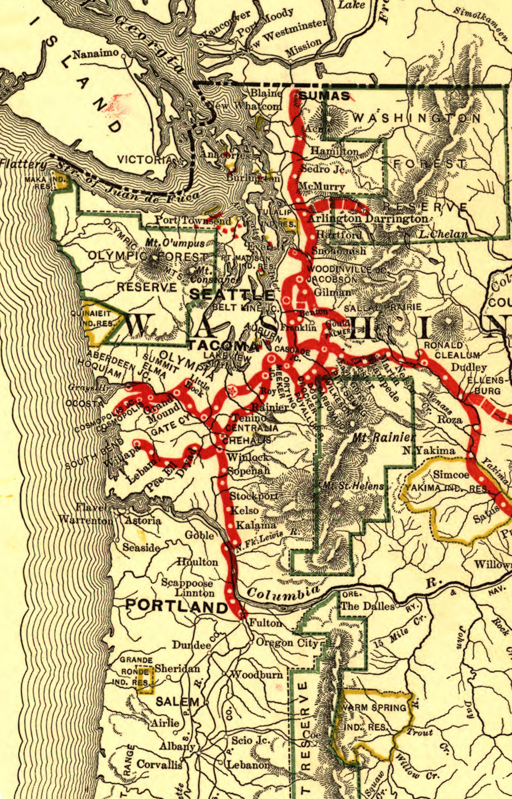 Map showing the Western Washington portions of the Northern Pacific Railway route circa 1900.